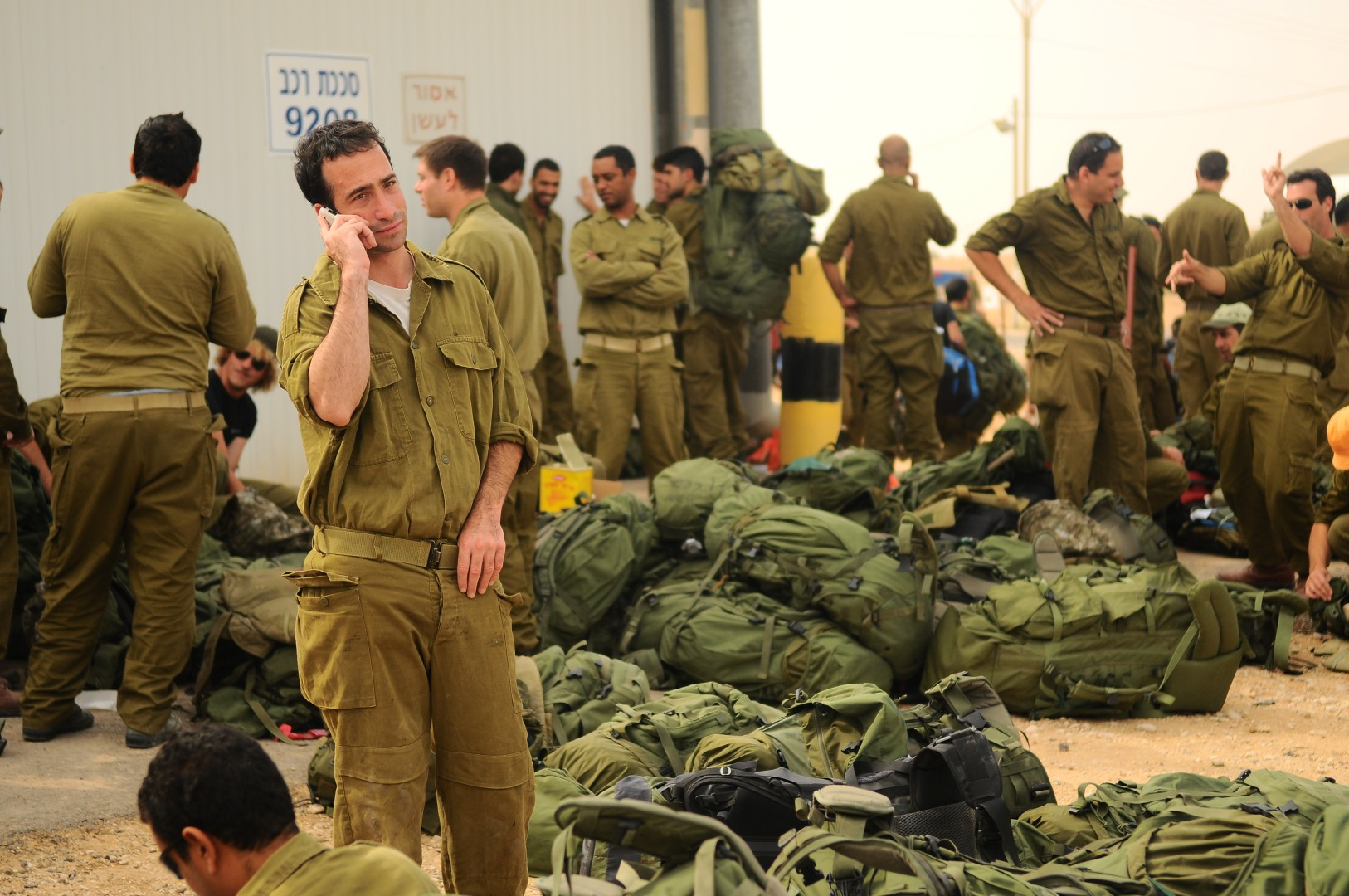 November 17, 2012 On November 14, the IDF launched Operation "Pillar of Defense", a widespread campaign against terror sites and operatives in the Gaza Strip. Over the past several days Hamas has fired hundreds of rockets at Israeli communities, threatening the lives of millions of civilians. Pictured: Reserve soldiers in staging areas around the Gaza Strip. On November 16, approximately 16,000 reserve soldiers were recruited for duty as part of Operation Pillar of Defense. For more information, see our updating post. For more from the IDF